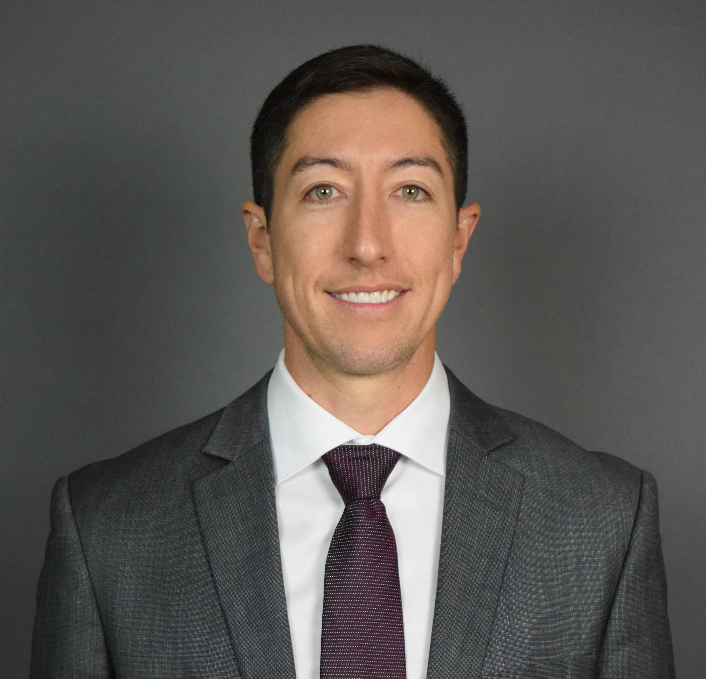 Headshot of Preston Griffall